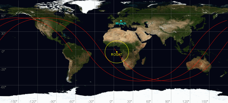 ROSAT goundtrack (red line) during 5 hours of observation, Feb 2011.